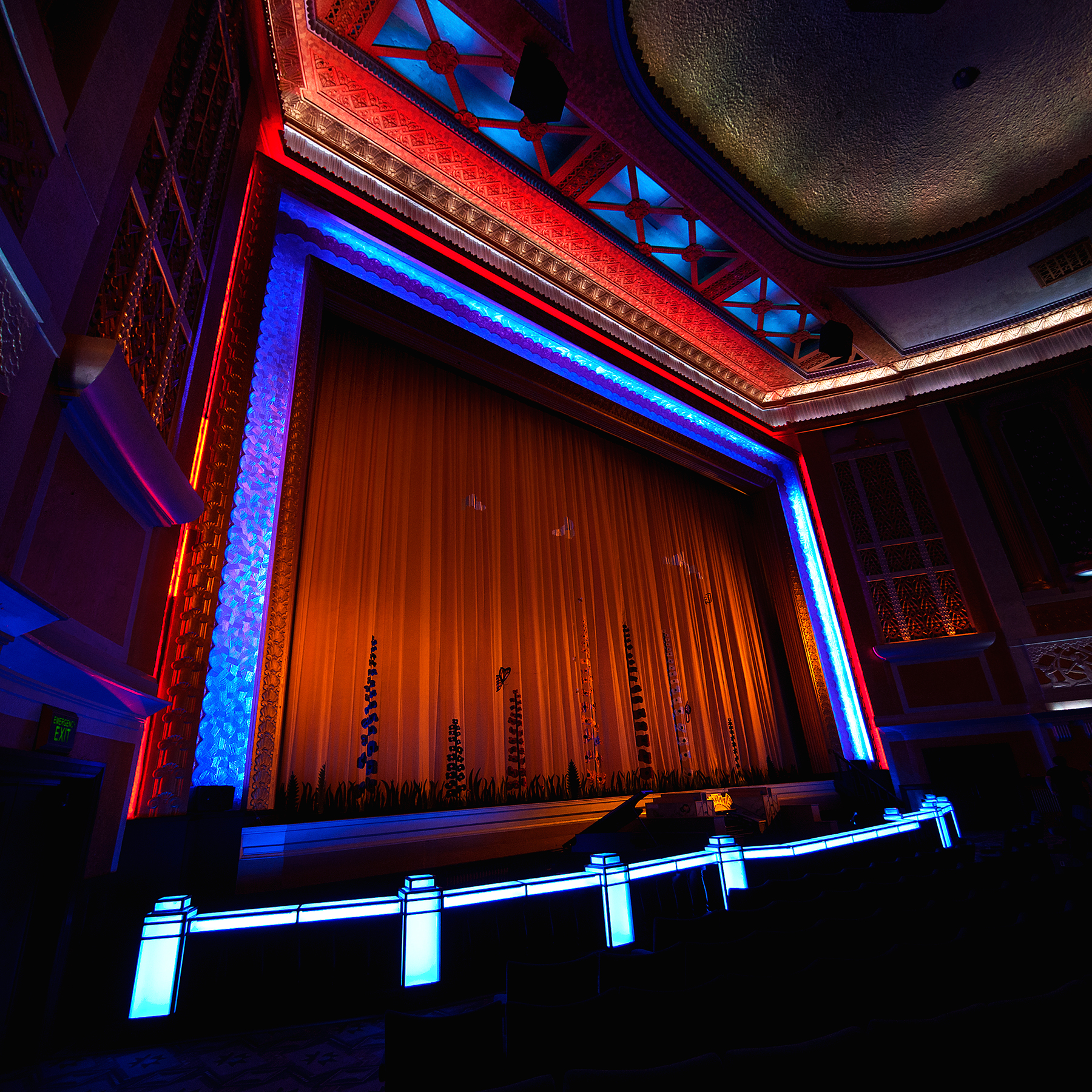 The stage at the Plaza Cinema, Stockport - taken during a heritage open day.